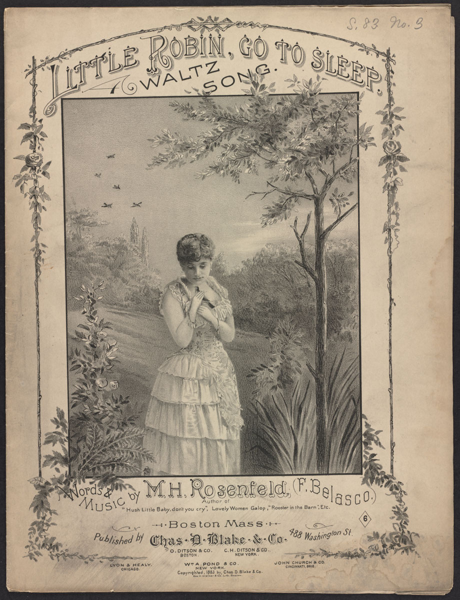 Accession No.: 07_07_000124 Call Number: no. 3 of S.83 Lithographer: Walker, George H. Title of Lithograph: Little Robin Go to Sleep Composer: Monroe H. Rosenfeld Title of Composition: Little Robin Go to Sleep Place of Publication: Boston Publisher: Chas. D. Blake & Co. Date: 1883 BPL Department: Music Flickr data on 2011-08-05: Camera: Sinar AG Sinarback 54 FW, Sinar m Tags: dc:identifier=07_07_000124 License: CC BY 2.0 User: Boston Public Library BPL